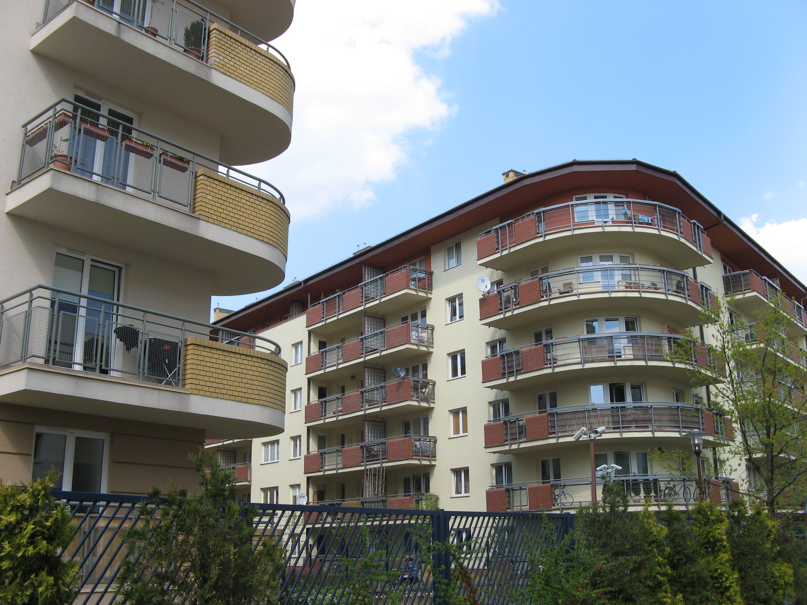 Residential buildings in the Ursynów district of Warsaw (Kasztanowa Aleja, Natolin